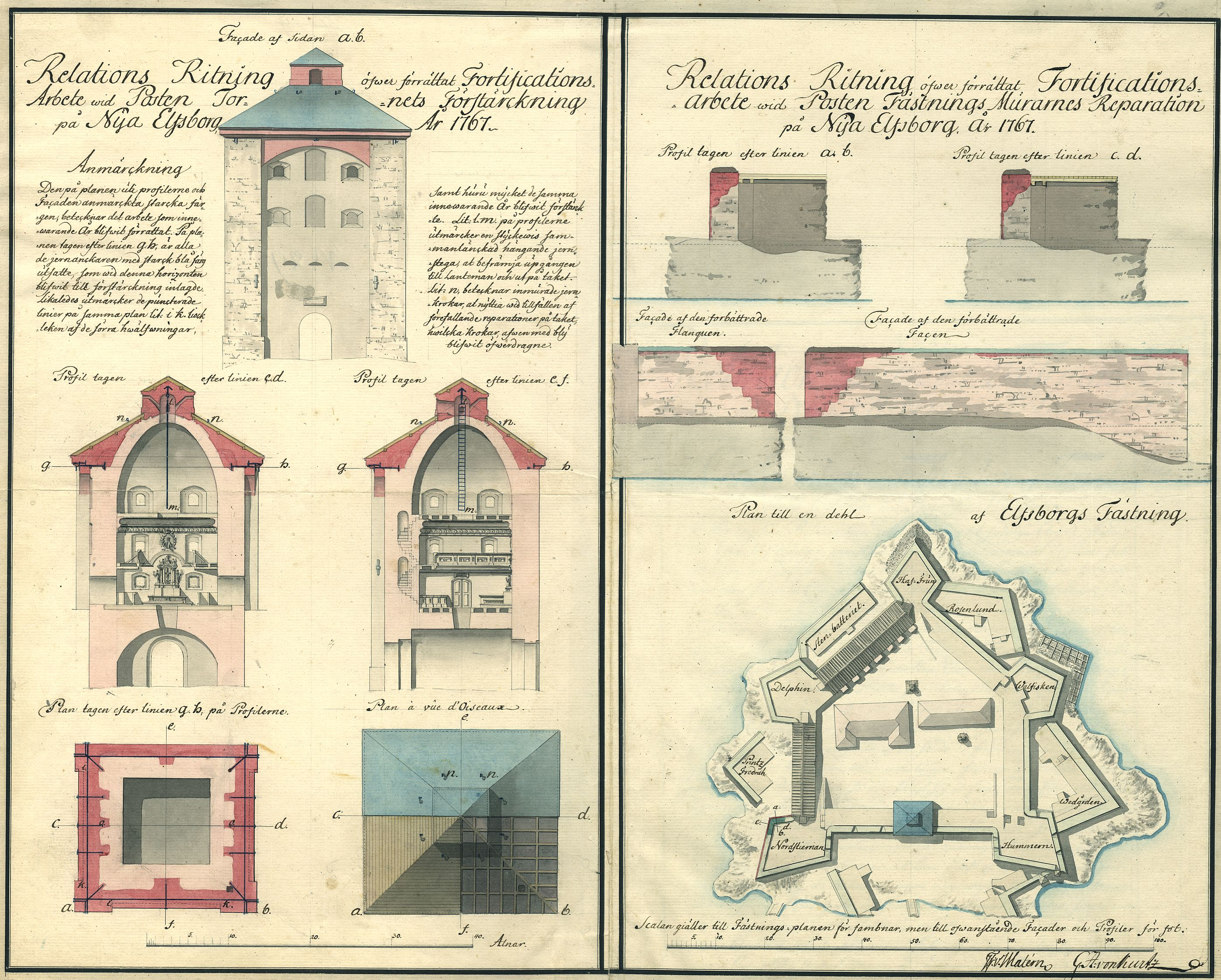 Performed work (marked red) at the fortress Nya Älvsborg in Gothenburg harbour, Sweden 1767. Iron is marked dark blue, inclusive the iron ladder up to the roof of the tower.